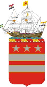 258th Field Artillery Regiment Coat Of Arms